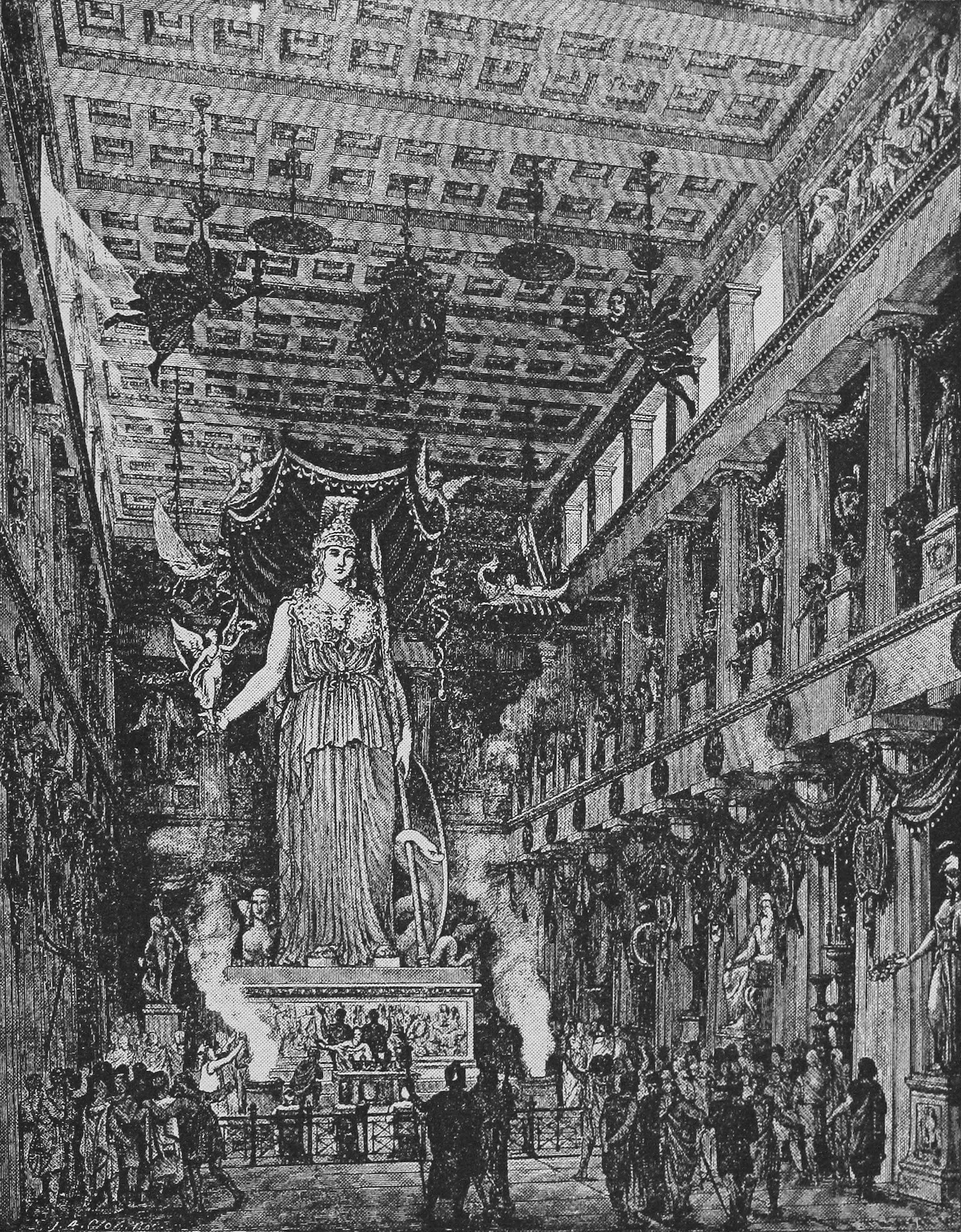 Illustration of the interior of the Parthenon including Athena Parthenos